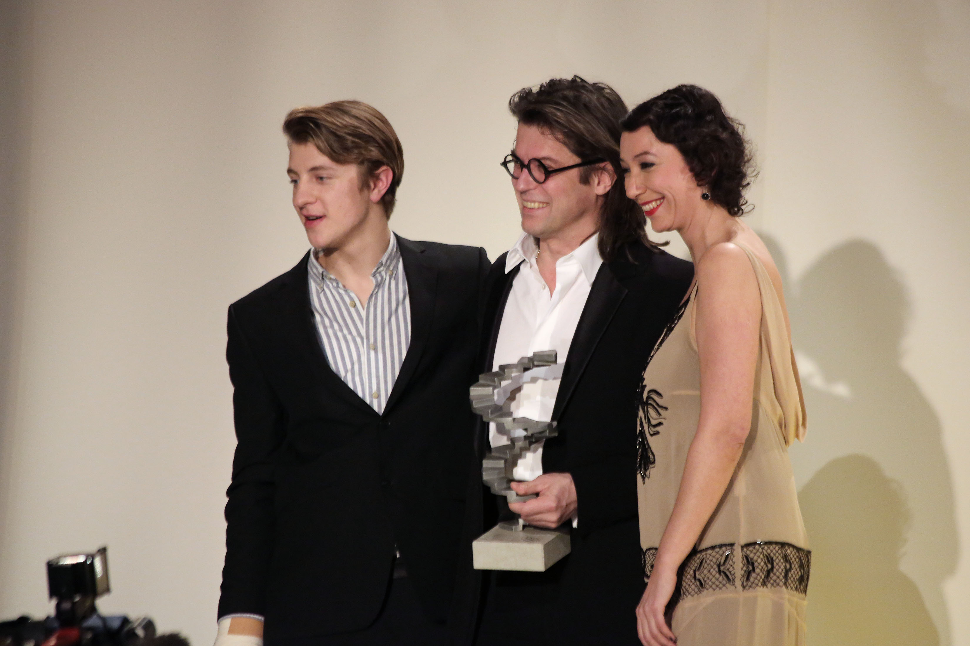 Thomas Oláh with presenters Ursula Strauss and Thomas Schubert at the Austrian Film Awards 2013 (Vienna).